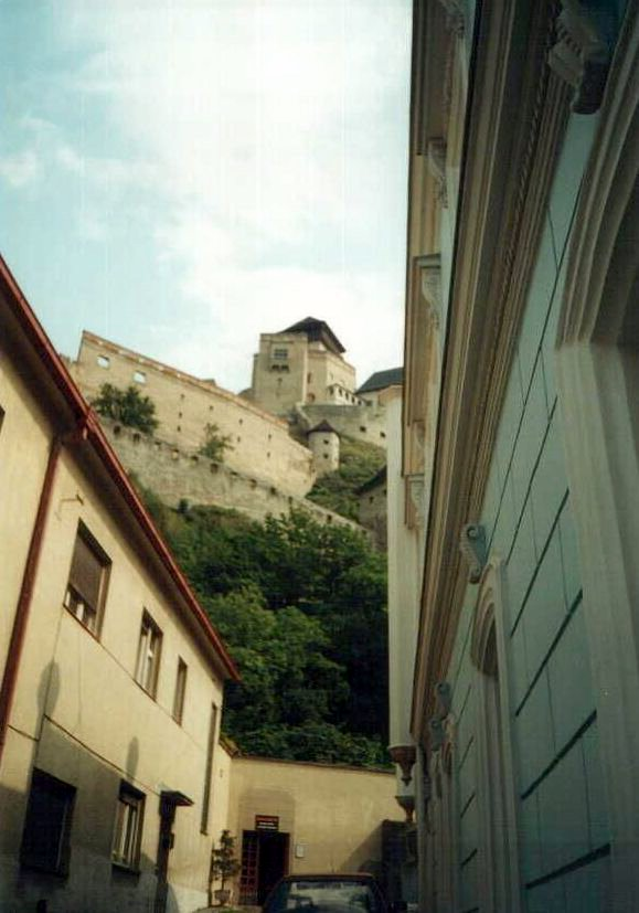 The view of Trenčín castle from the town Trenčín, Slovakia.